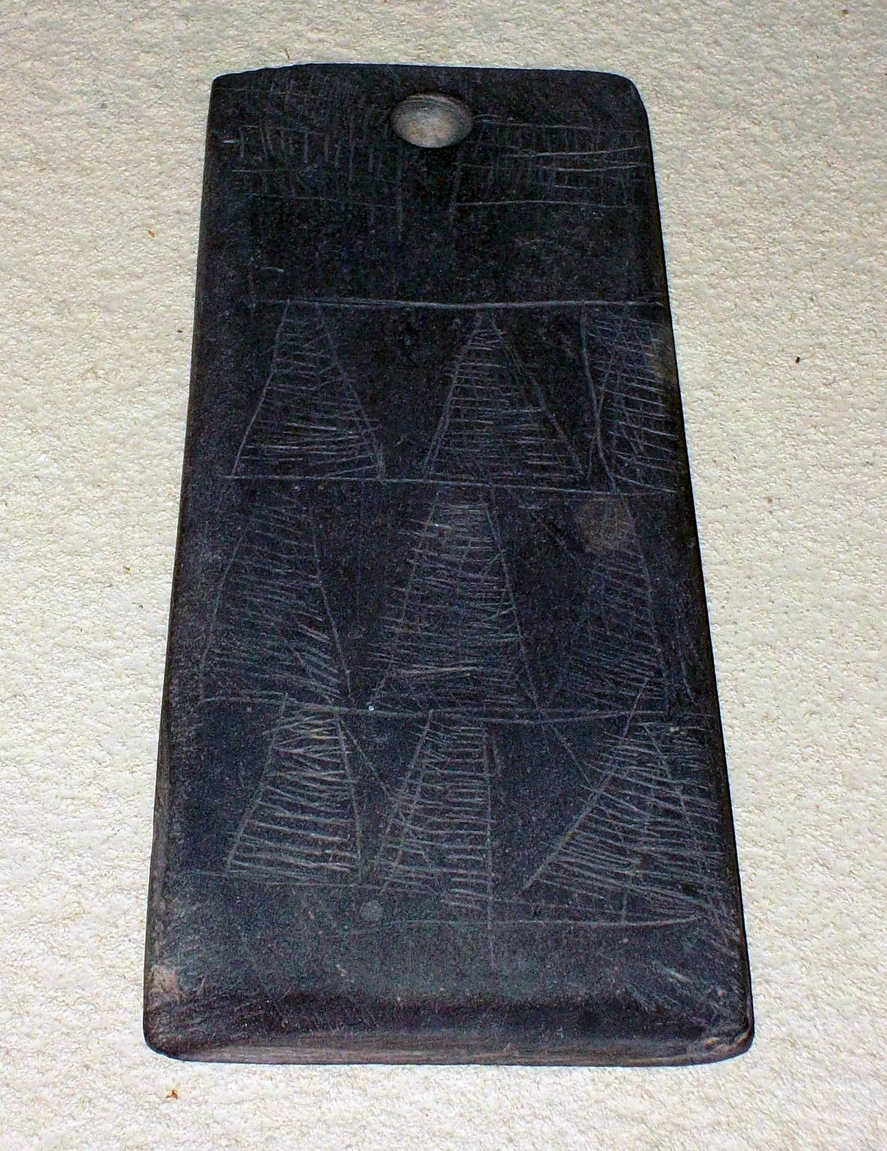 Photo of idol plaque found at dolmen in Marvão, Portugal (3rd millennium BCE).